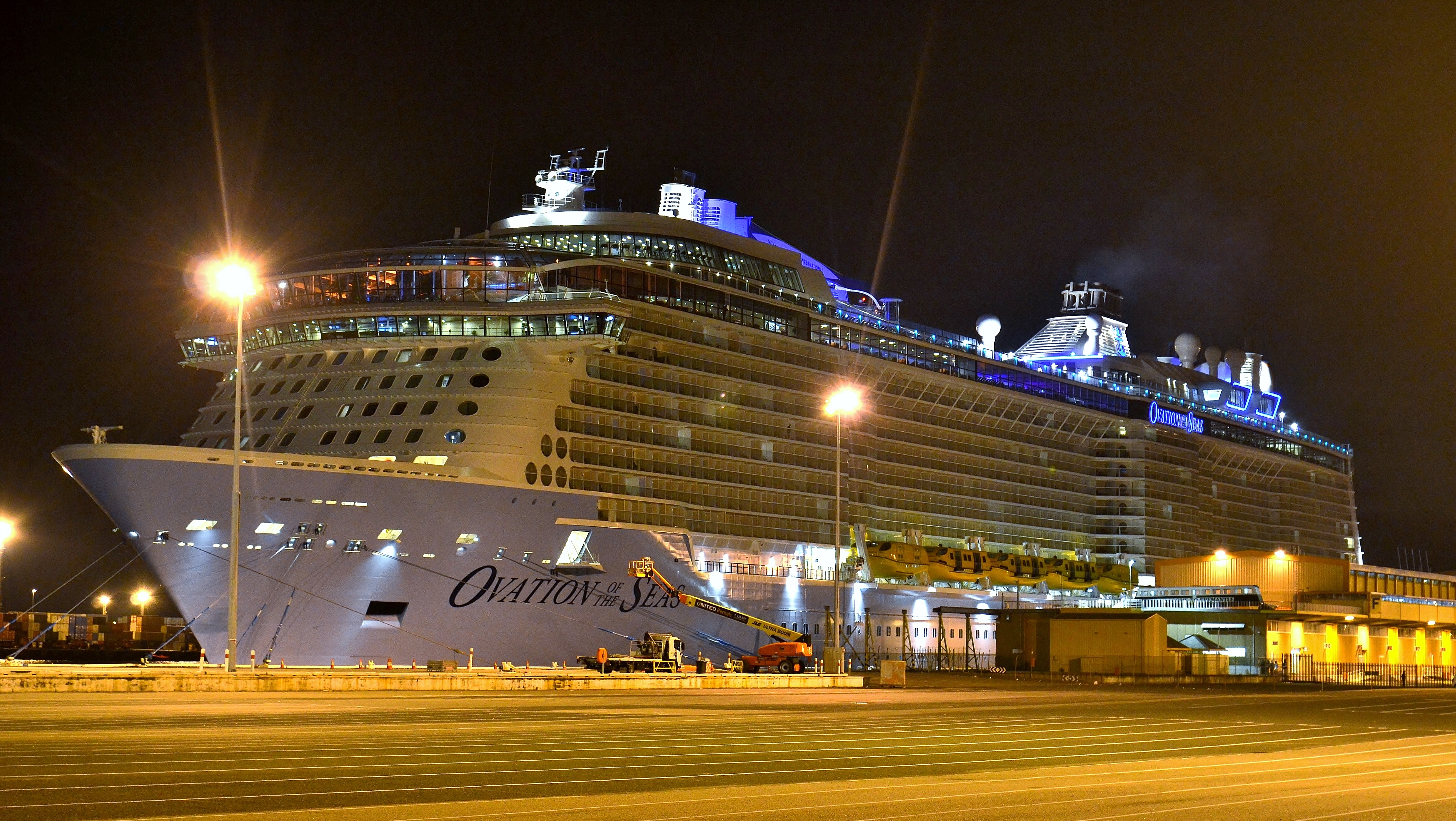 Cruise ship Ovation of the Seas berthed at "F" berth, alongside the Fremantle Passenger Terminal, Victoria Quay, in the inner harbour of Fremantle Harbour, Western Australia.